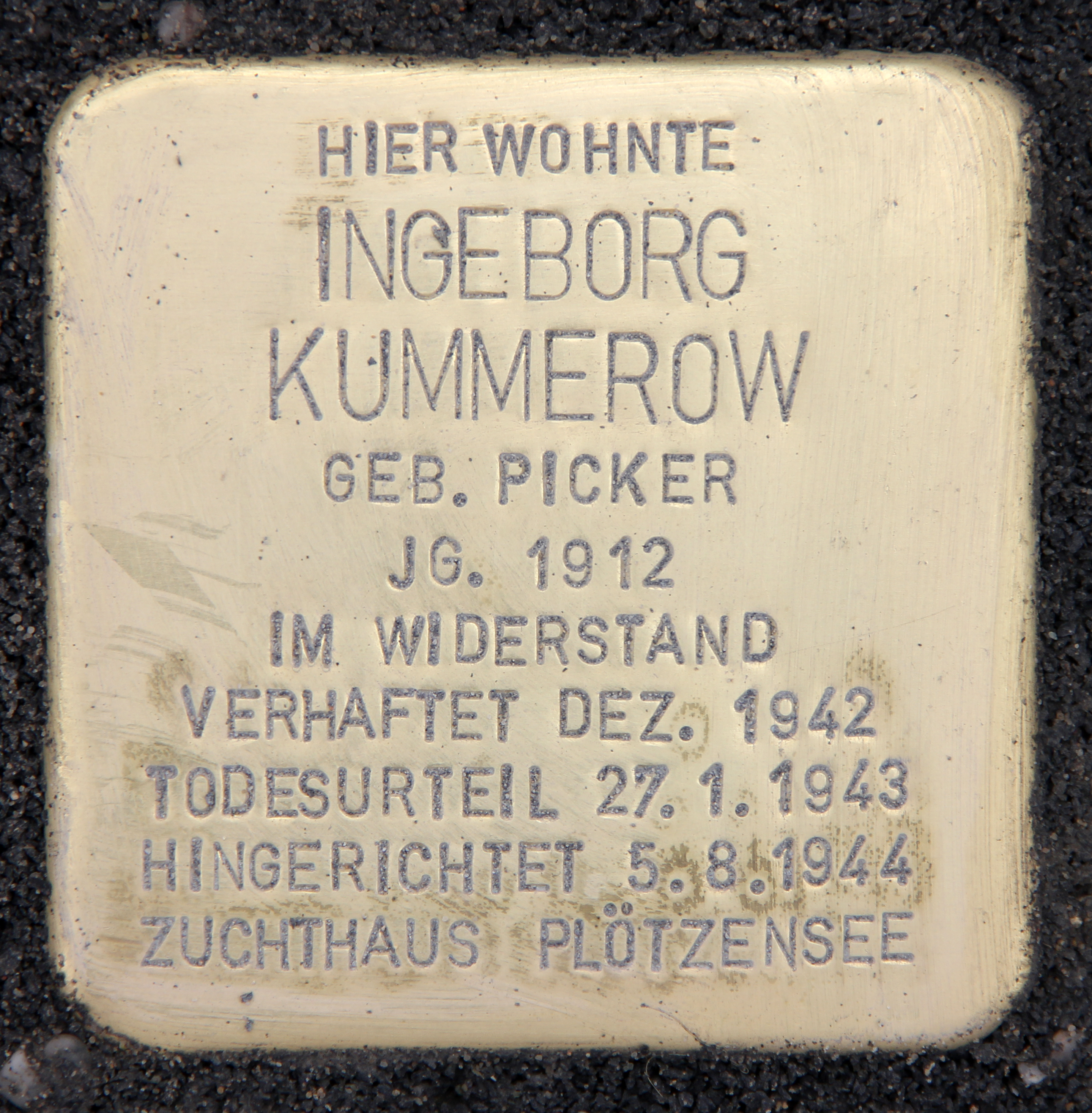 "Stolperstein" (stumbling block), Ingeborg Kummerow, Spanische Allee 166, Berlin-Nikolassee, Germany